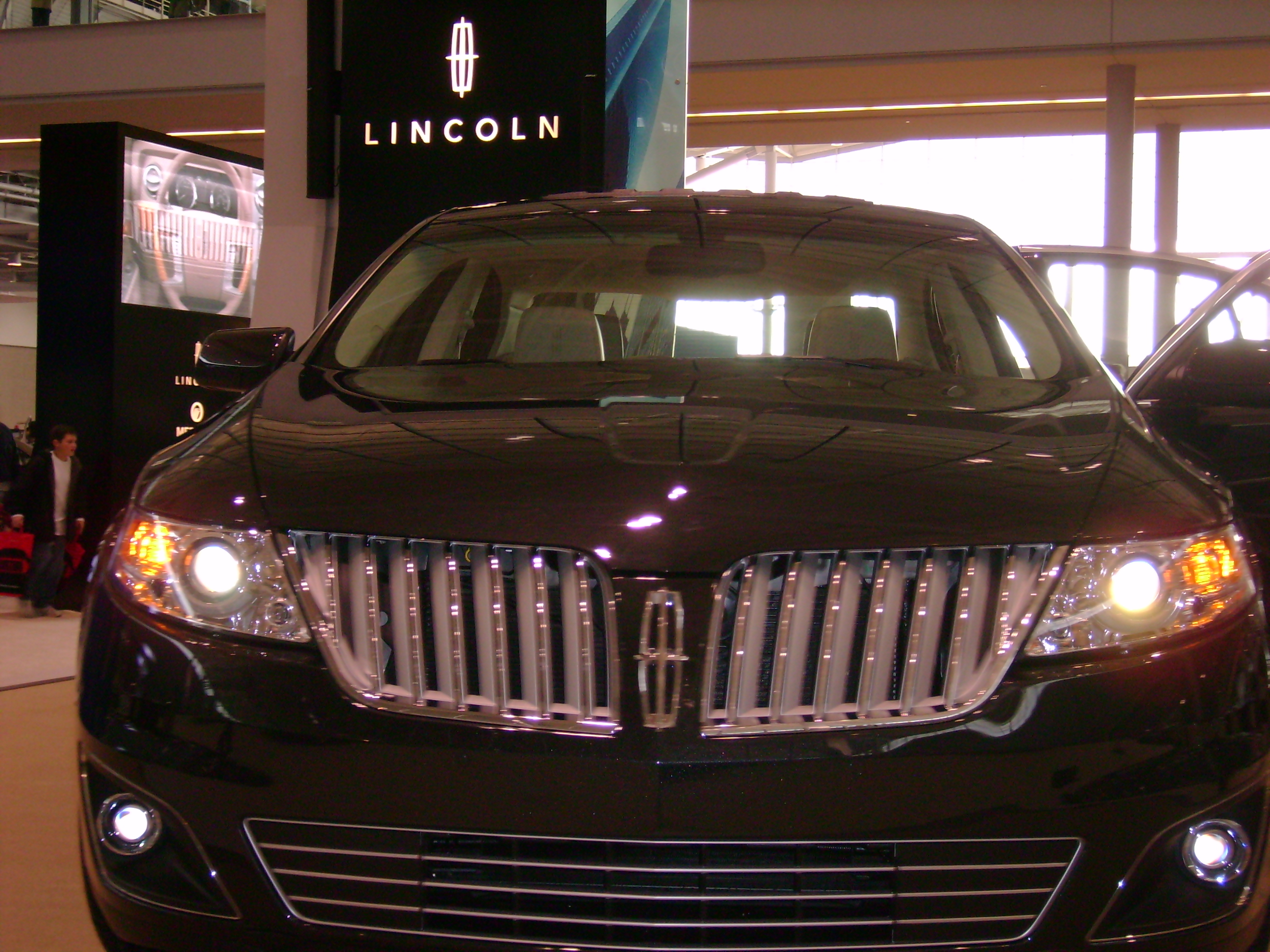 2009 Lincoln MKS photographed in USA.